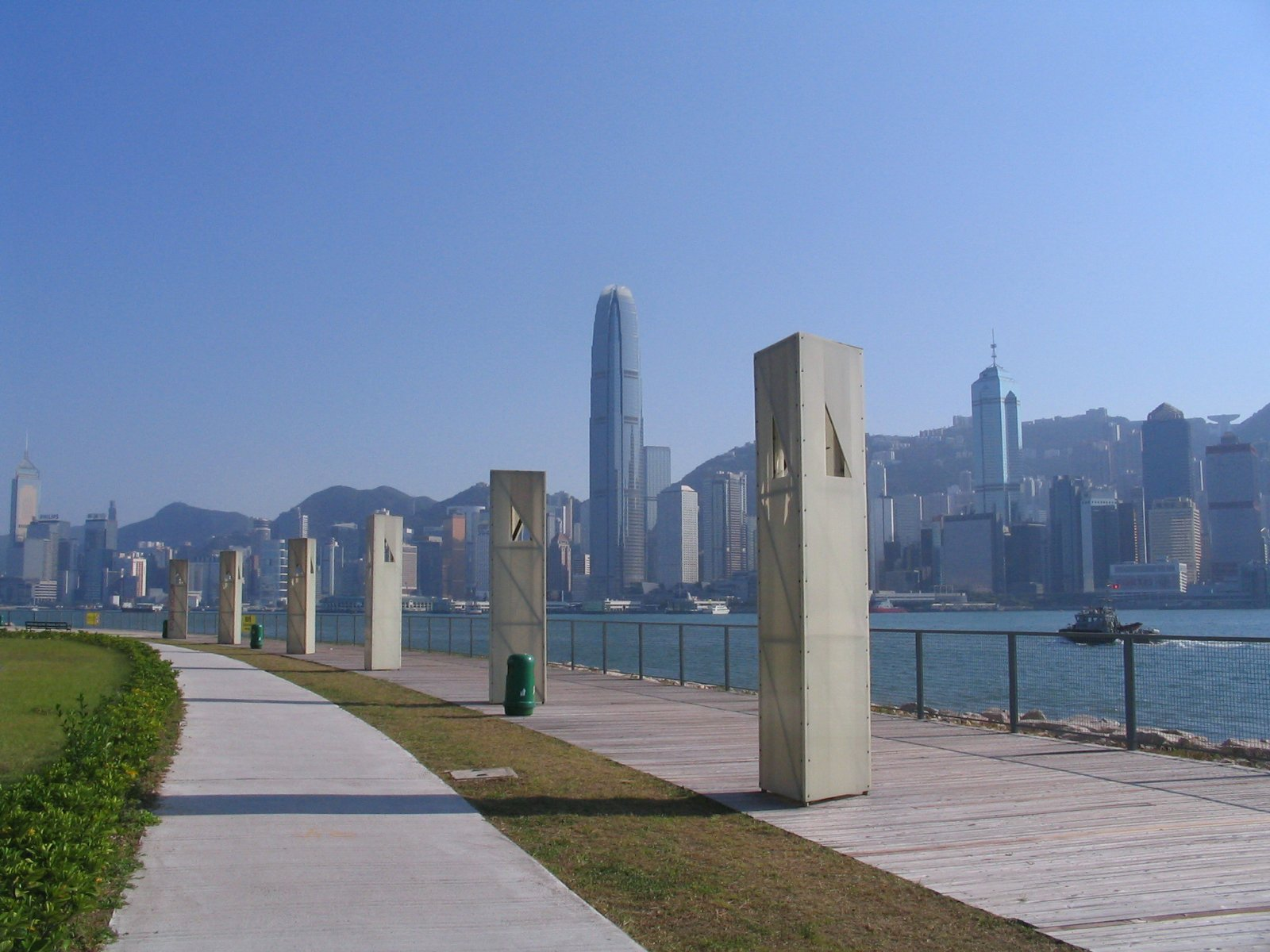 西九龍海濱長廊 West Kowloon Waterfront Promenade